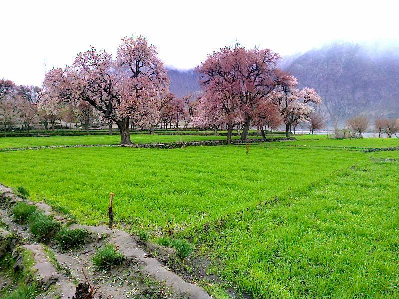 Surmo farms, beauty at its peak.